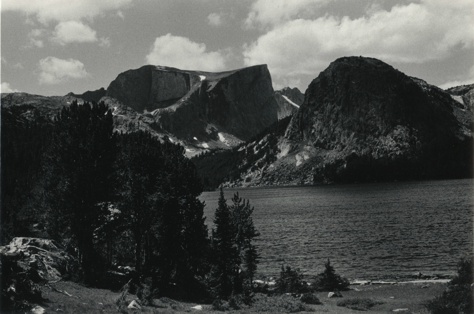 Grave Lake, Mount Hooker and Pilot Knob (the half dome just beyond the lake).